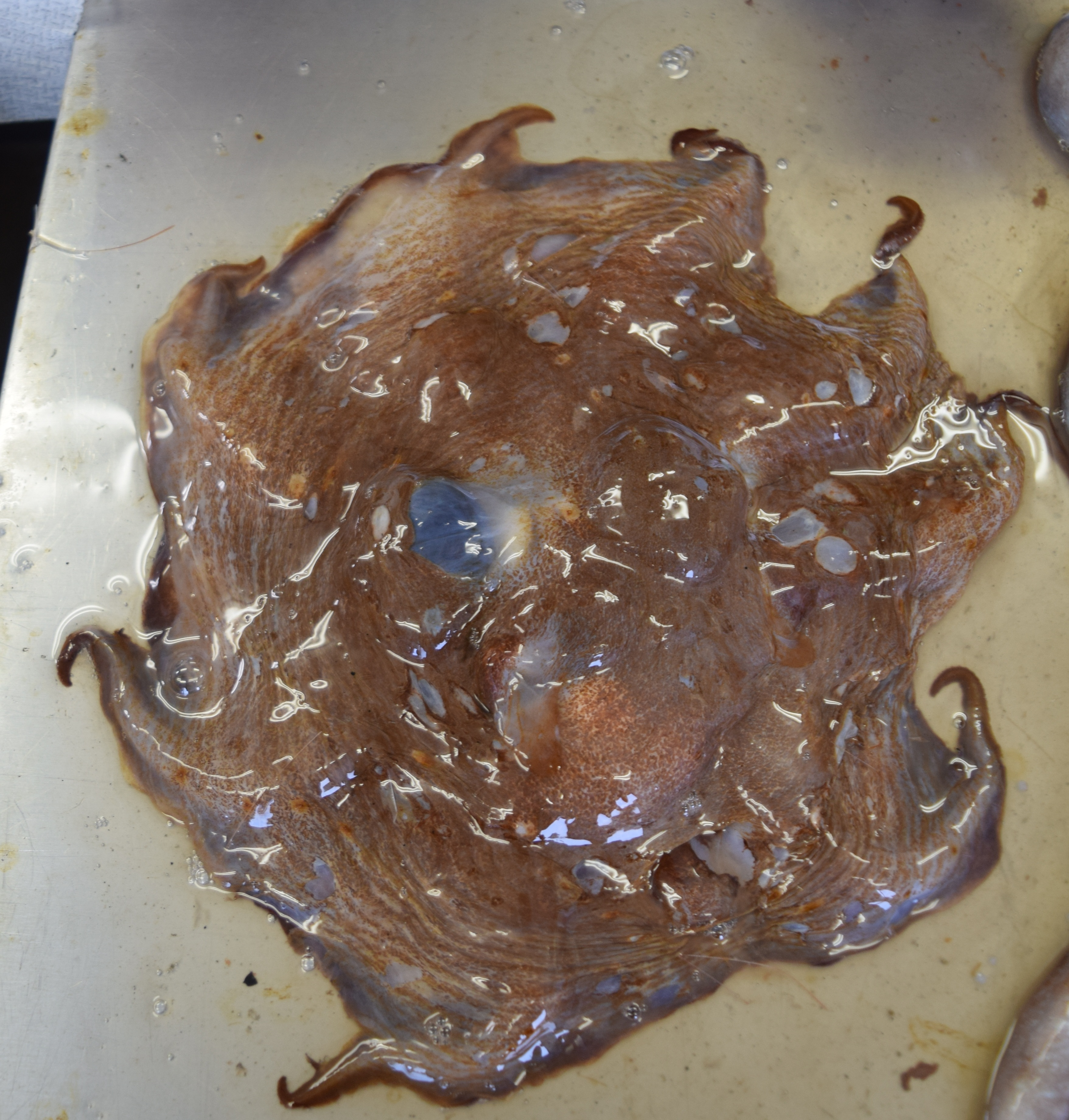 Opisthoteuthis depressa in Toba, Japan. Japanese name : Mendako 「メンダコ (面蛸)」 , English name : Japanese pancake devilfish; kind of Flapjack octopus.